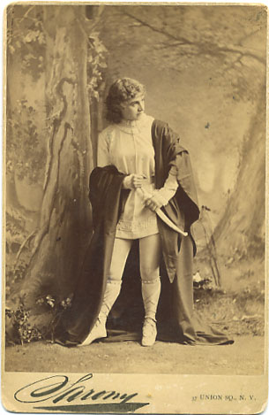 Portrait of Adelaide Neilson